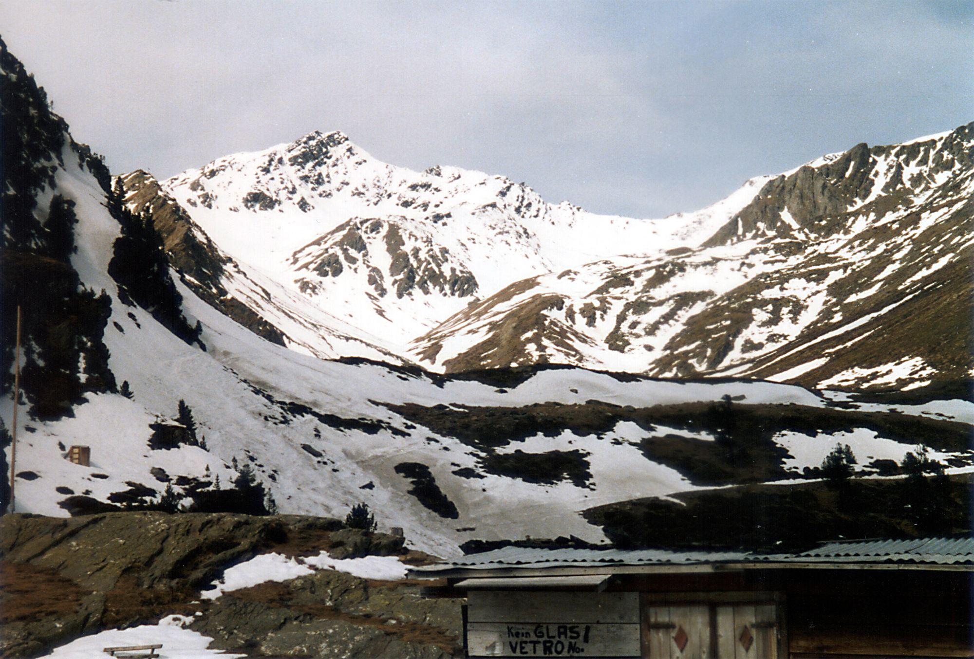 Madritschspitze (3265m) from SE, Zufállhütte, Ortler-Alps, South Tyrol, Italy